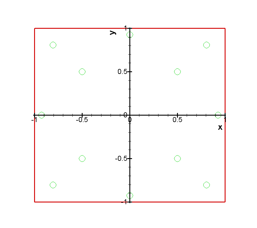 Numerical integration on quadrilateral domain, 12 points formula